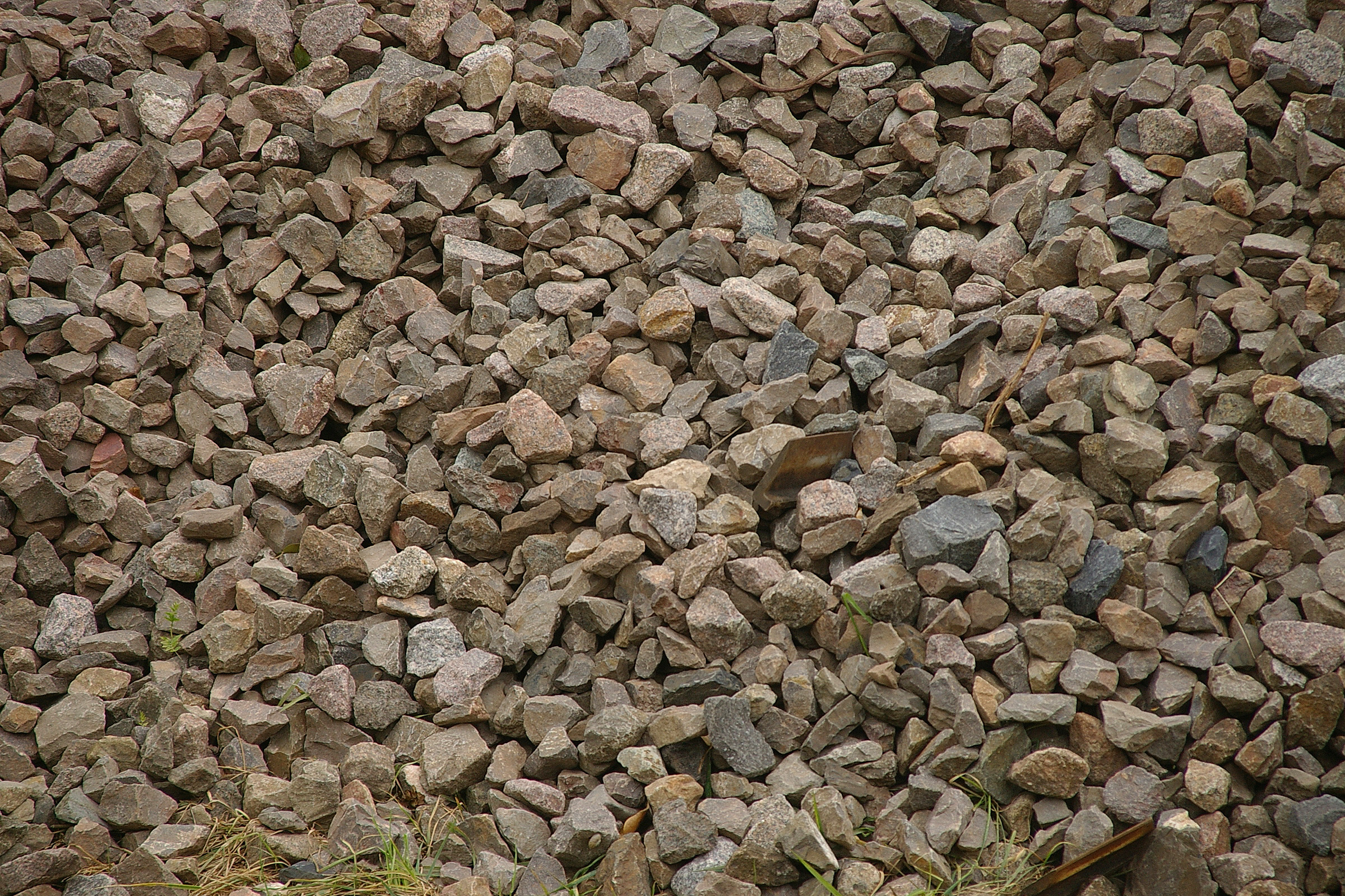 Ballast by the Chelvey Lane bridge over the Bristol to Taunton line near Nailsea.